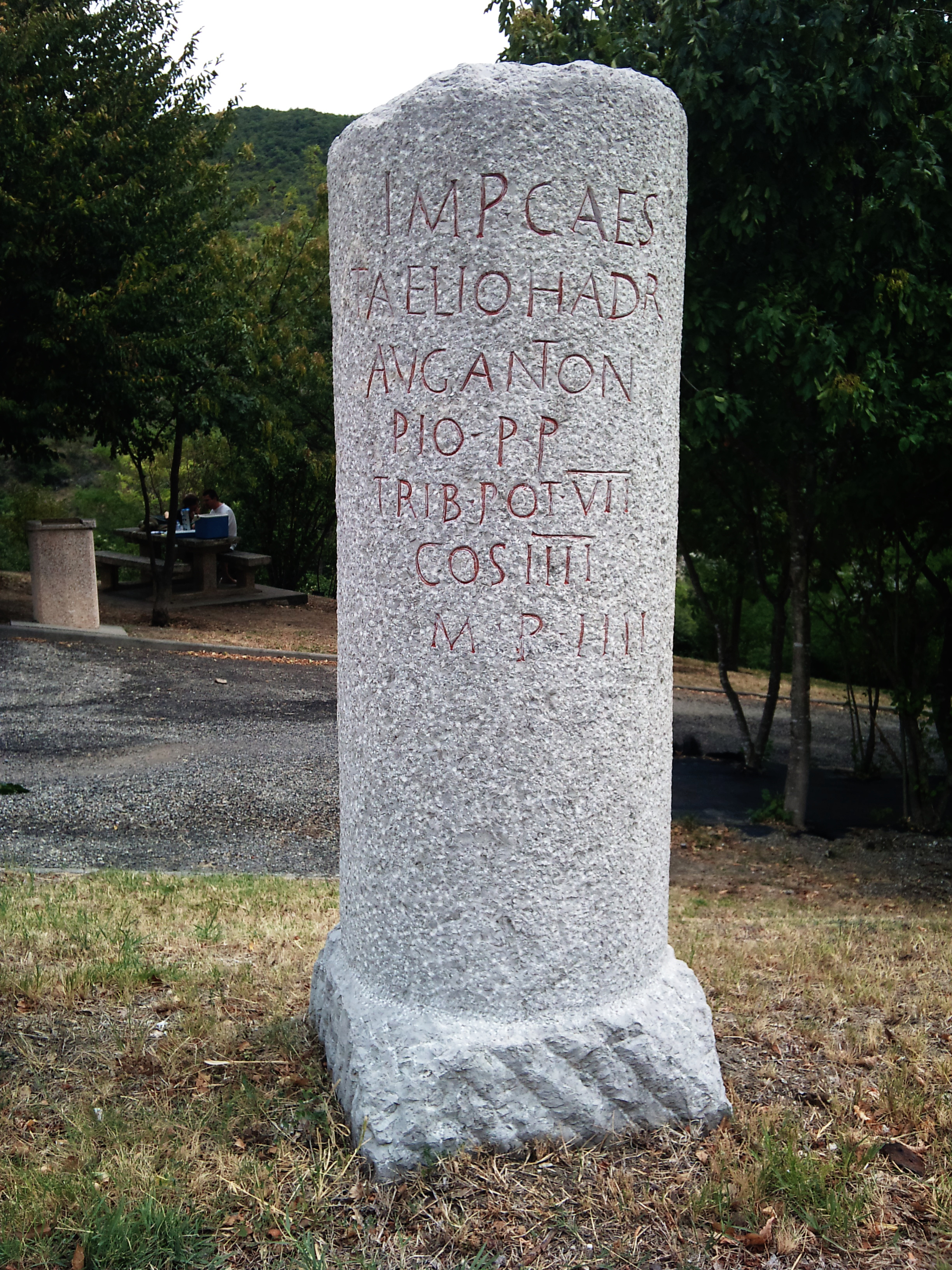 Replica in limestone of a roman milestone CIL XVII2, 183 at Le Teil (Ardèche 07, France).